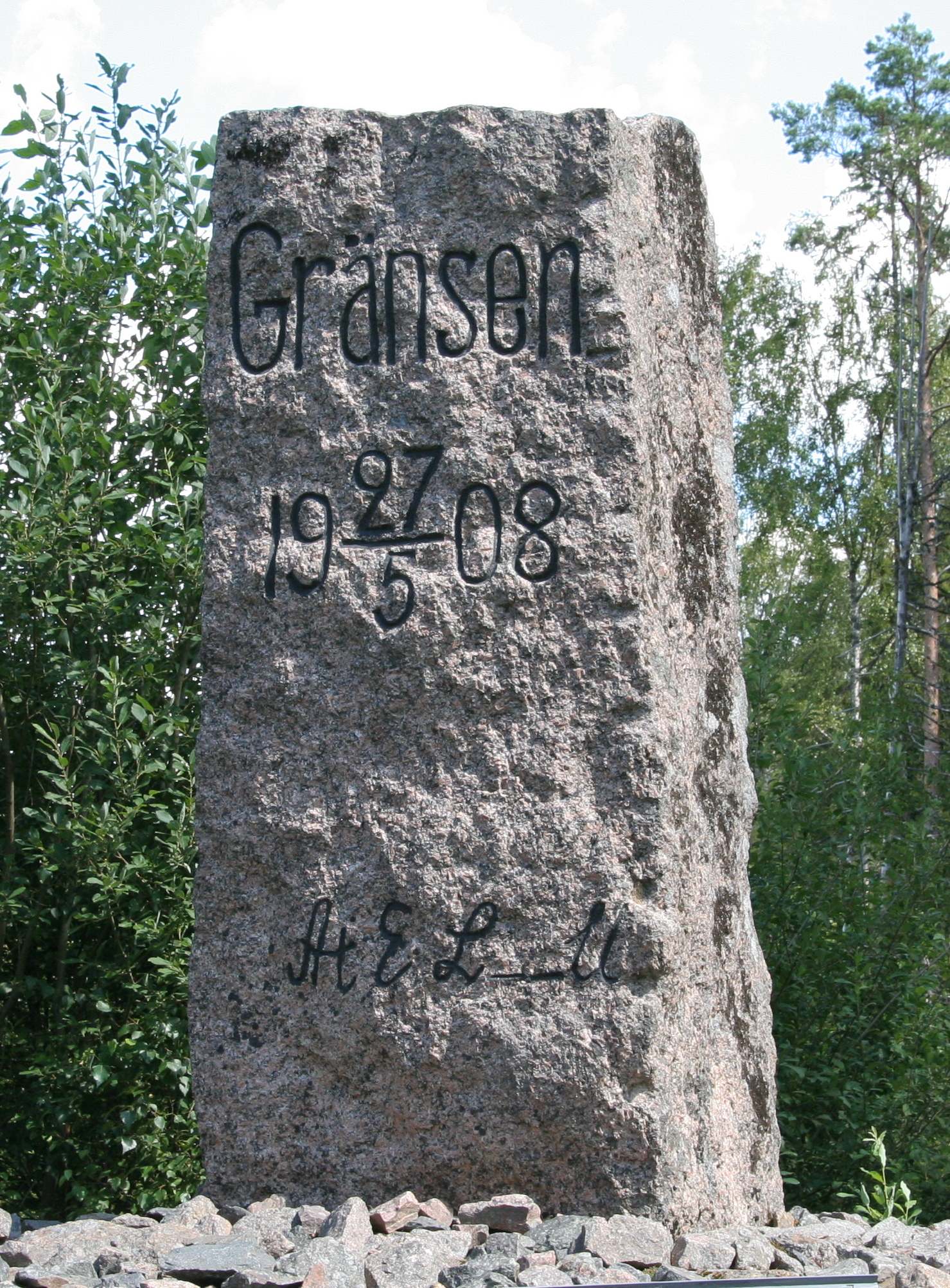 A stone monument commemorating the start of building the last phase of the NAEJ railroad in 1908.